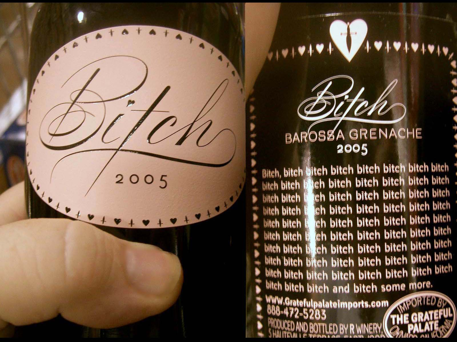 Barossa Australian Grenache wine under the brand label "Bitch"